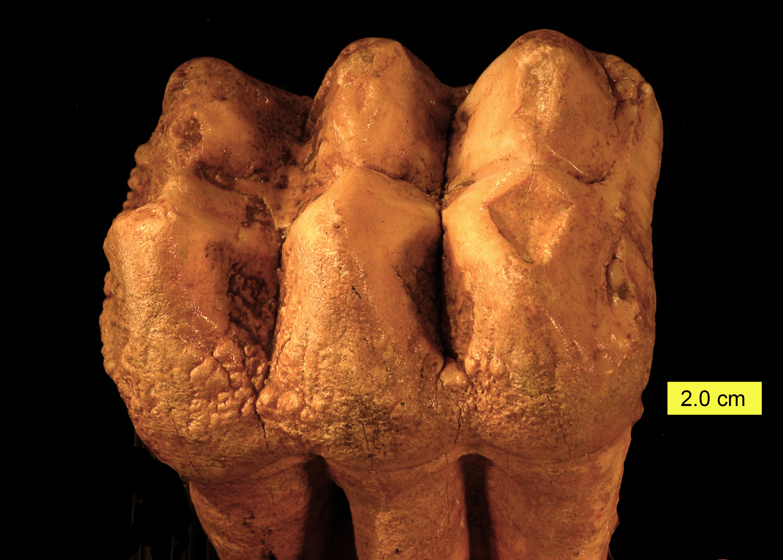 Mammut tooth surface (Pleistocene, Holmes County, Ohio).